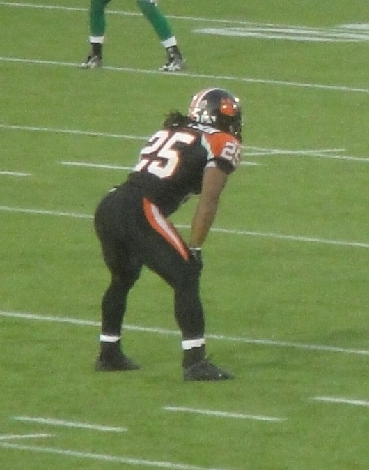 Jamal Robertson in the 2010 home opener for the BC Lions